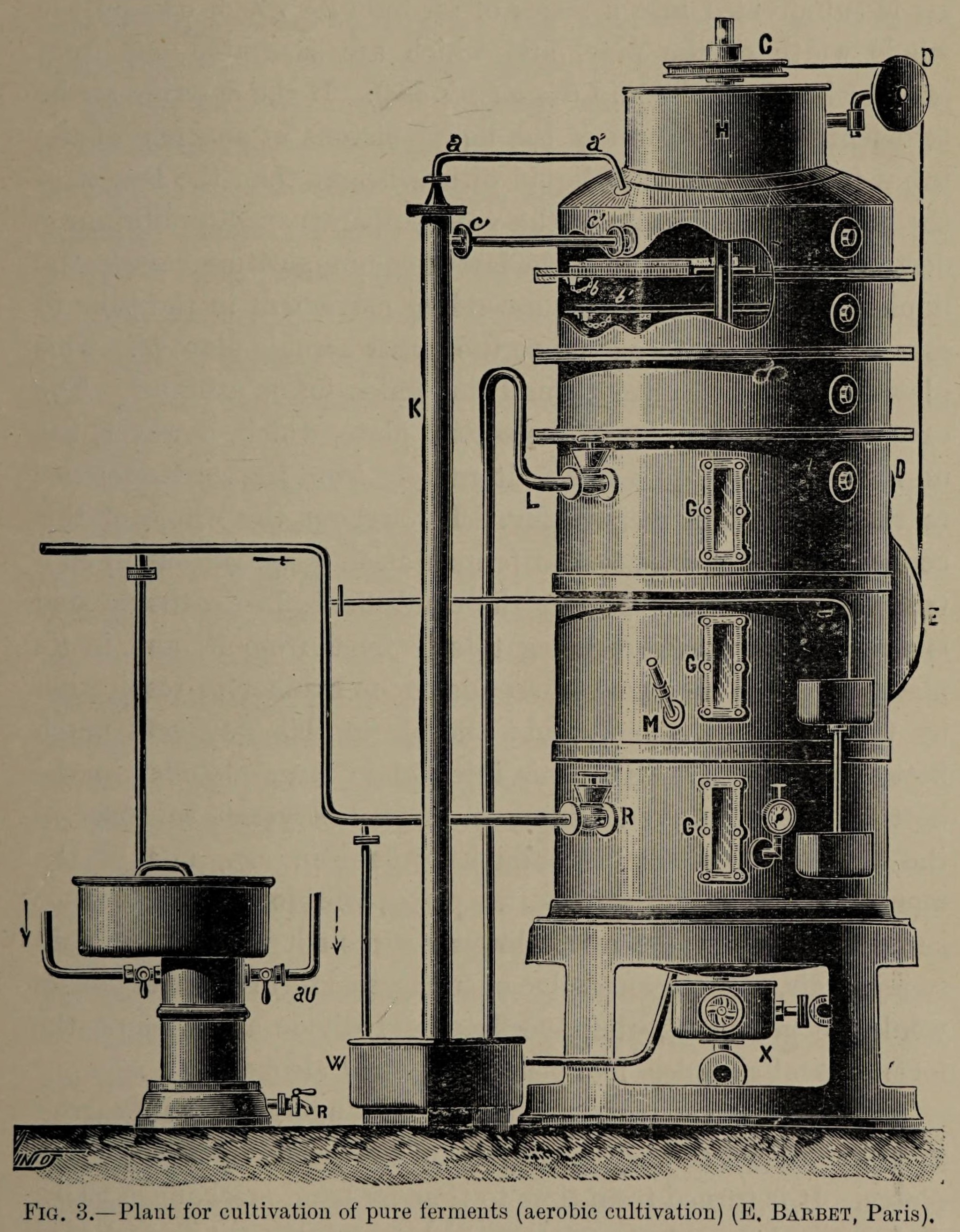 Image of plant cultivation from Industrial Alcohol by John Geddes M'Intosh page 37. Figure 3 - Plant for cultivation of pure ferments (aerobic cultivation) (E. Barbet, Paris).